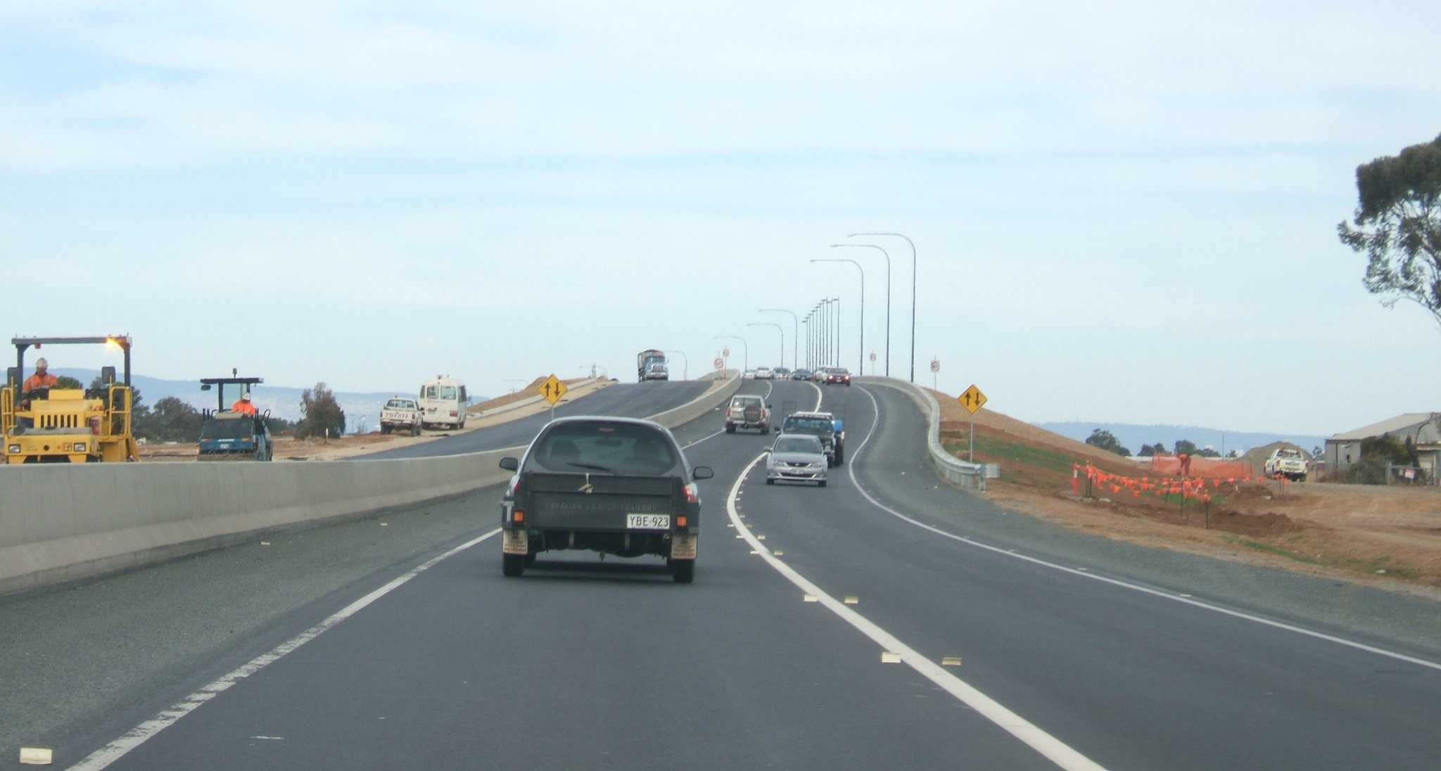 The overpass at the beginning of the Northern Expressway, during construction, looking from the north, along Port Wakefield Road, Waterloo Corner, South Australia